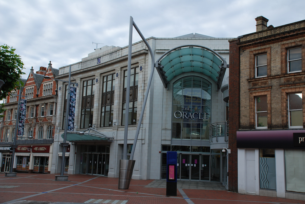 Entrance to the Oracle shopping centre in Broad Street. Also available at Gallery.